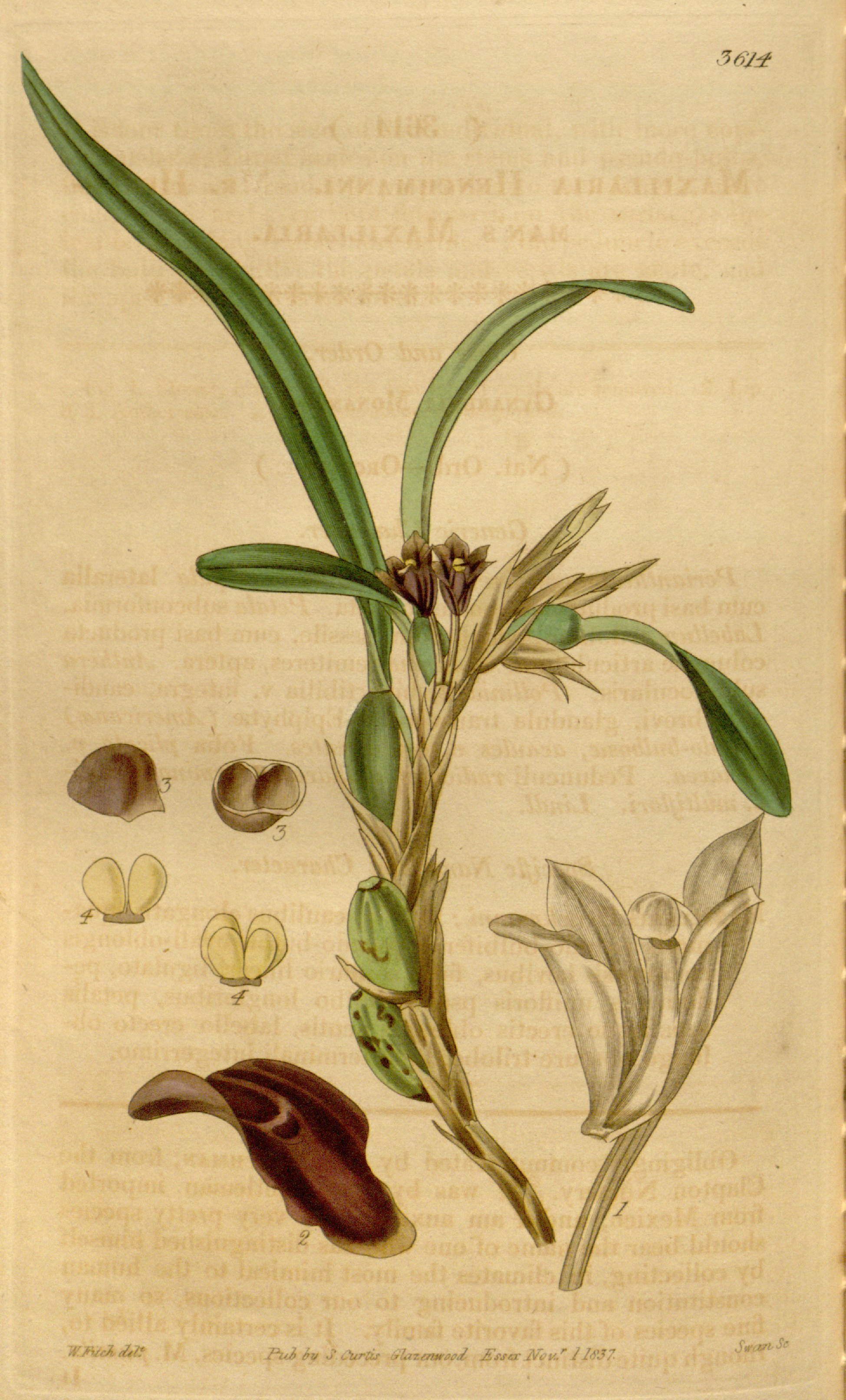 Illustration of Maxillariella variabilis or Maxillaria variabilis (as syn. Maxillaria henchmannii)